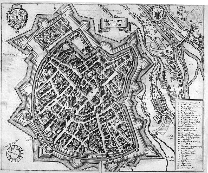 Plan of Munich in 1642, copper engraving by Matthäus Merian the Elder